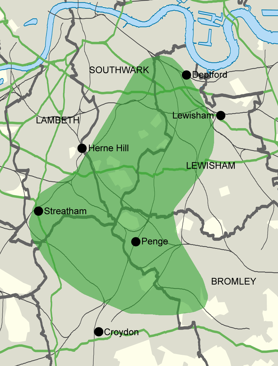 Map of the Great North Wood, based on that given at This file was derived from Greater London UK location map 2.svg